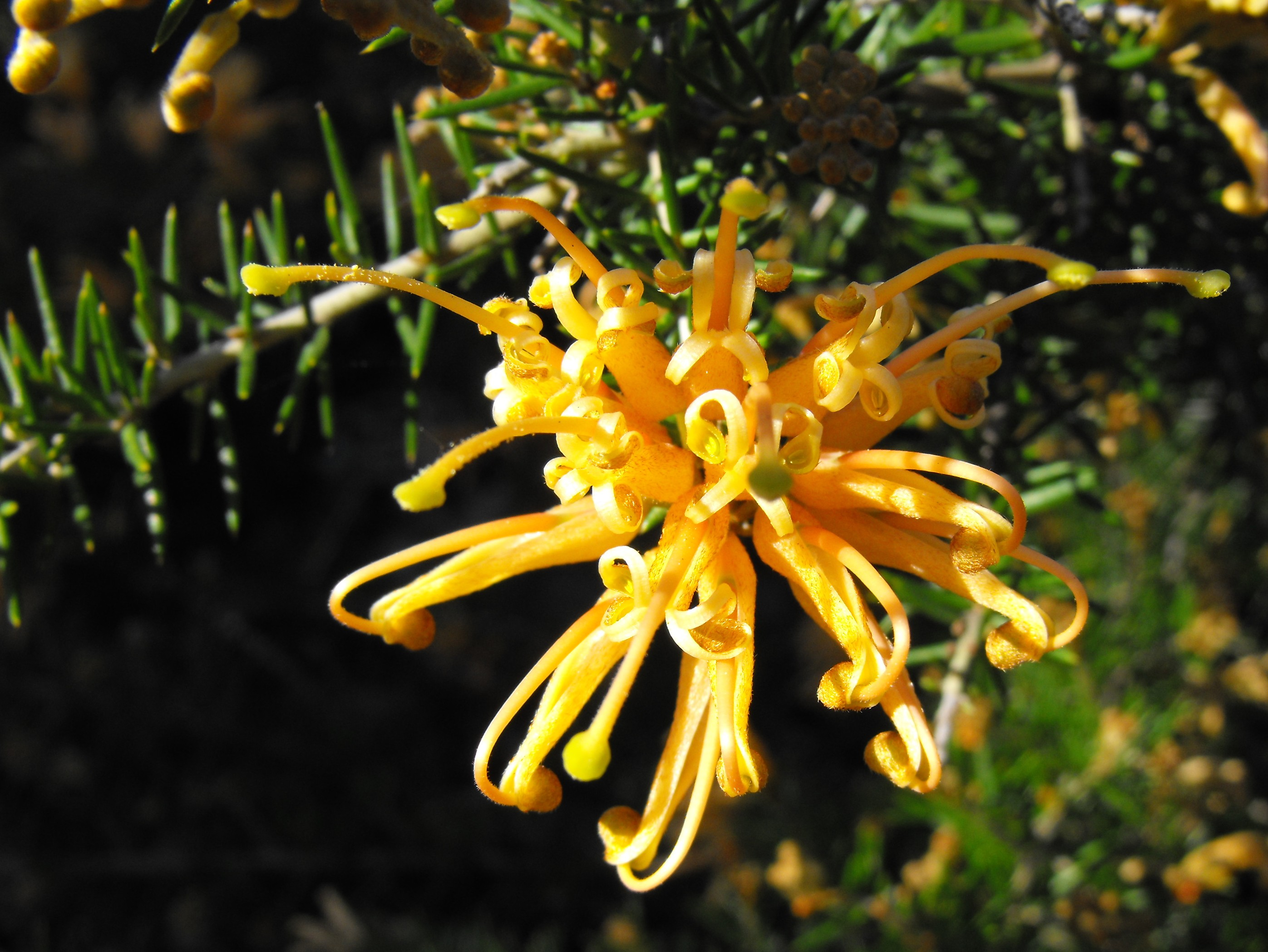 Grevillea juniperina 'Molonglo' at the Water Conservation Garden at Cuyamaca College, El Cajon, California, USA. Identified by sign.